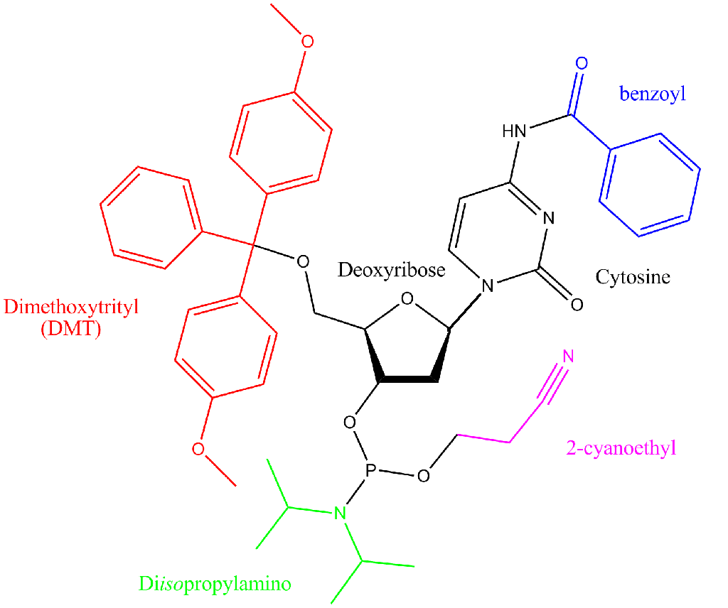 Phosphoramidite of cytosine.